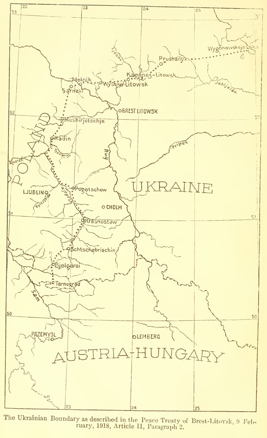 Northwestern boundary of Ukraine by the Treaty of Brest Litovsk, 9 February, 1918.